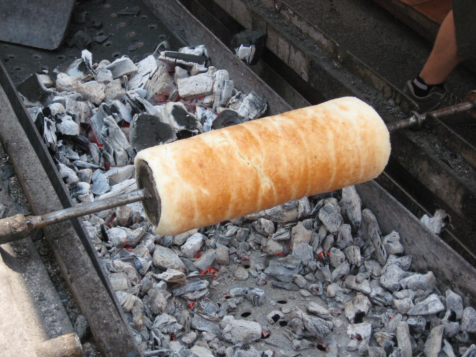 Kurtoskalacs baking over charcoal fire in a street stall in Szentendre, Hungary